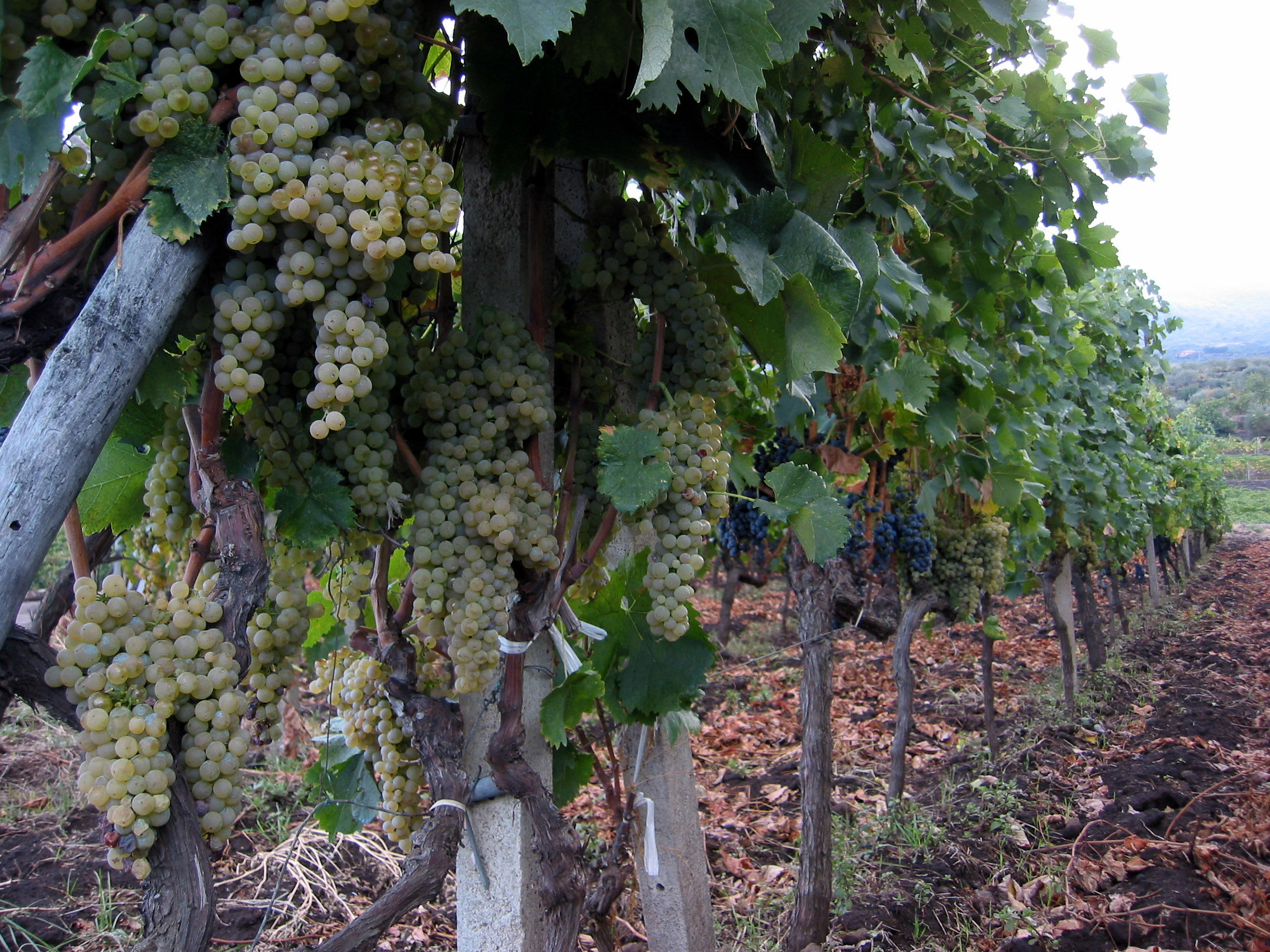 Vineyard with a field blend of red and white wine grape varieties mixed together in a vineyard in Sicily.